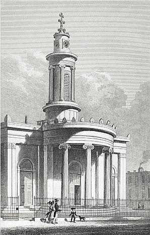 All Saints by TH Shepherd, 1828.